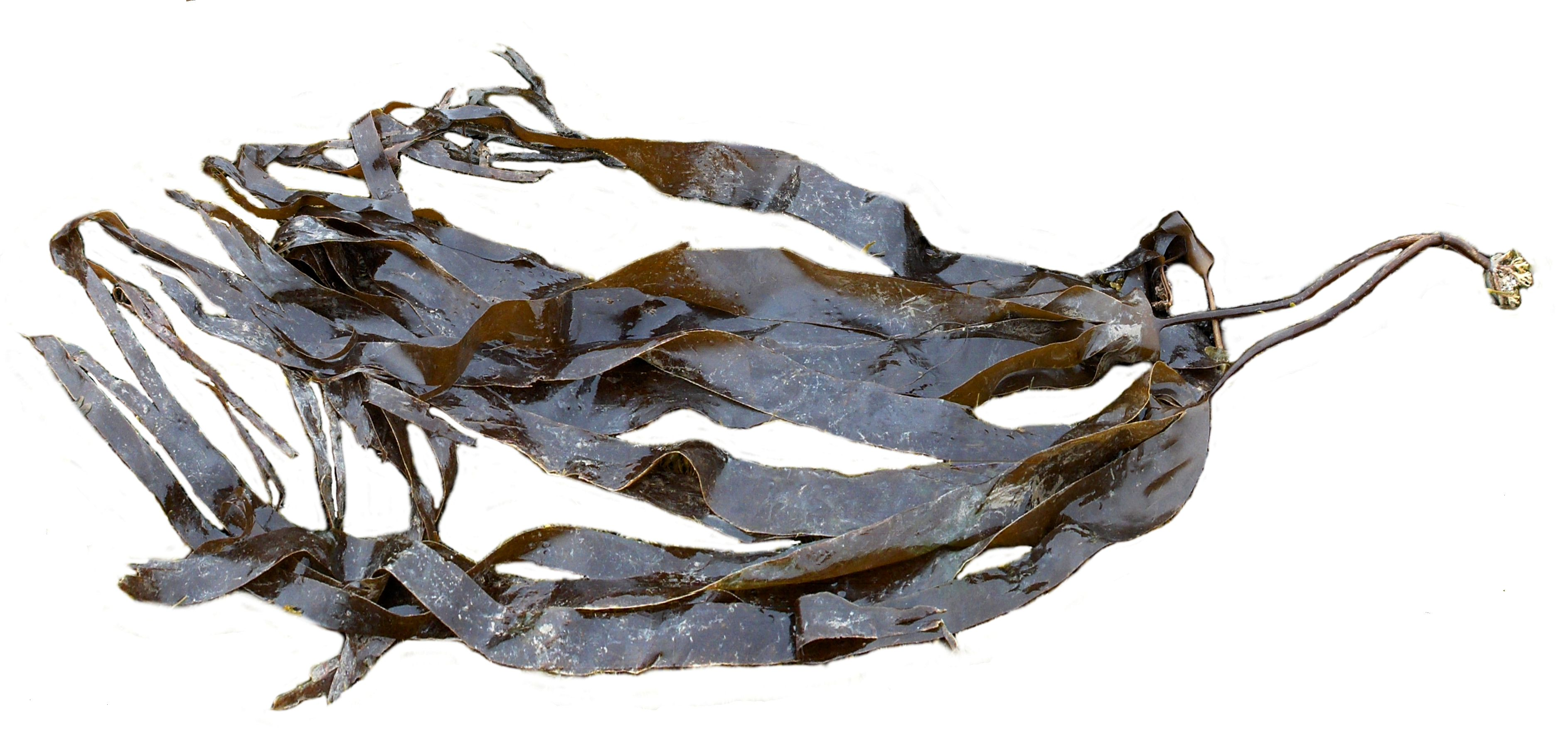 Two fronds of Laminaria digitata washed up on the foreshore of Anglesey, Wales, UK; background is mostly Ascophyllum nodosum. Total length of fronds is c. 8 ft (2.4 m).